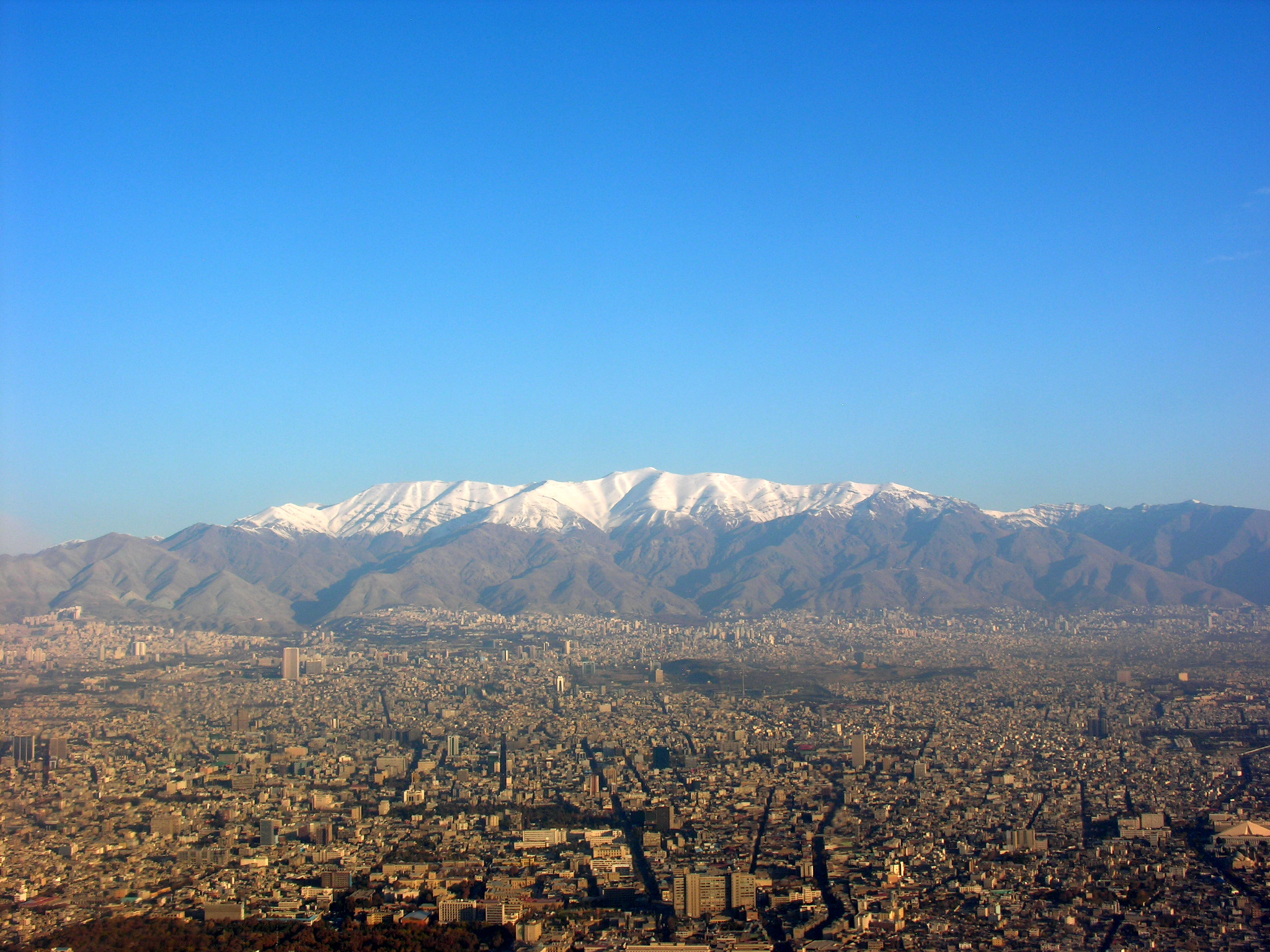 Aerial View of Tehran